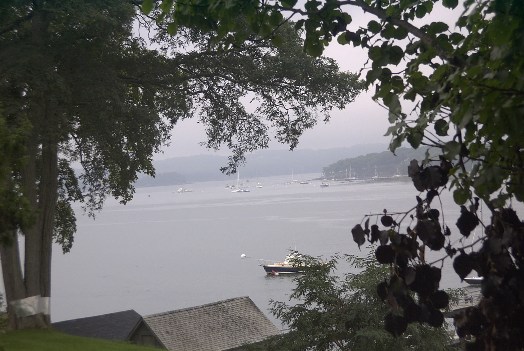 View of Penobscot Bay from Water Street, Castine, Maine, USA attribute "photo by Mason Barge"